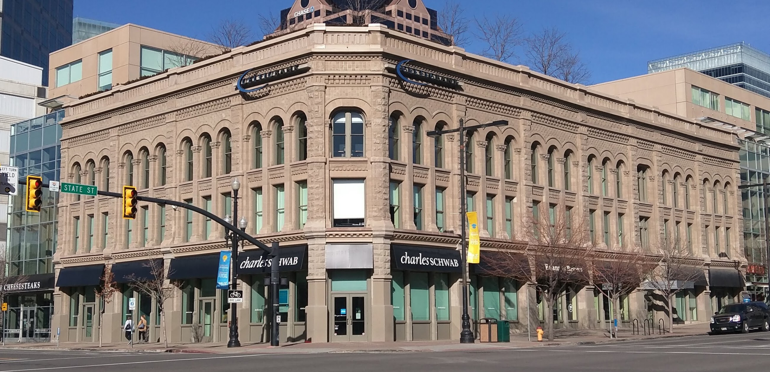 Brooks Arcade The modern state of Brooks Arcade in downtown Salt Lake City, Utah. Only the facade is original, which extreme renovation caused it to be delisted as a history building.